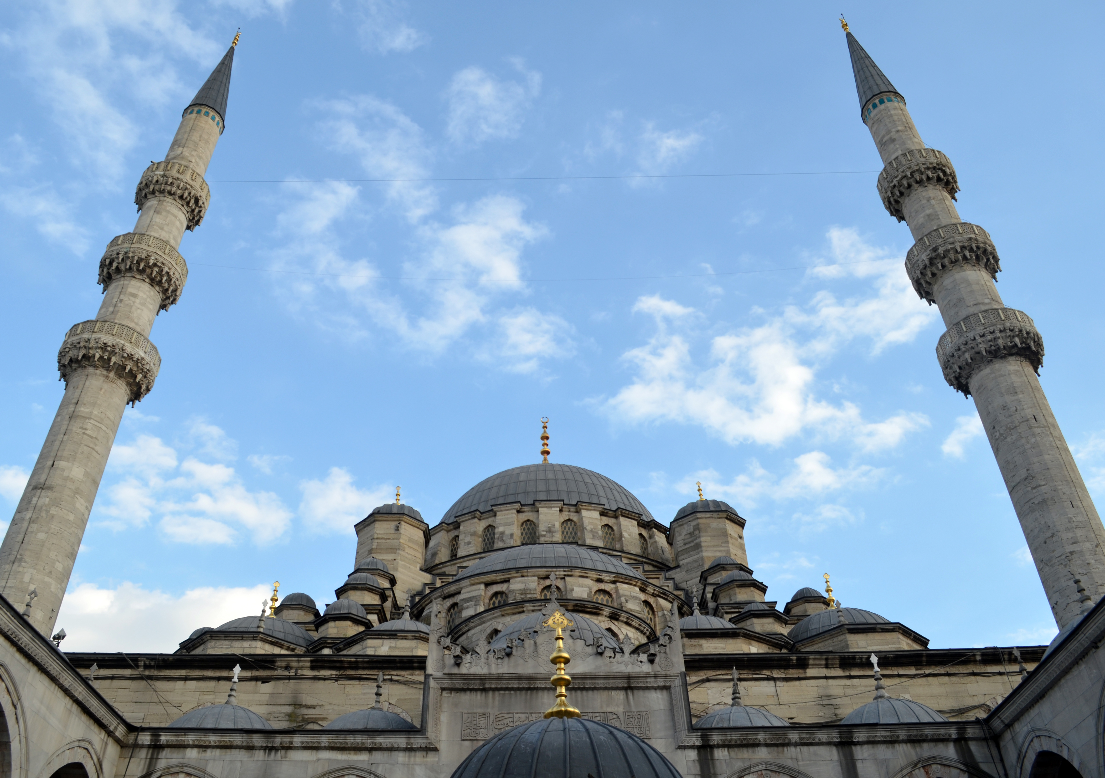 The New Mosque of Istanbul also called Yeni Cami, is an Ottoman imperial mosque located in the Eminönü quarter of Istanbul, Turkey. It is situated on the Golden Horn, at the southern end of the Galata Bridge, and is one of the famous architectural landmarks of Istanbul.